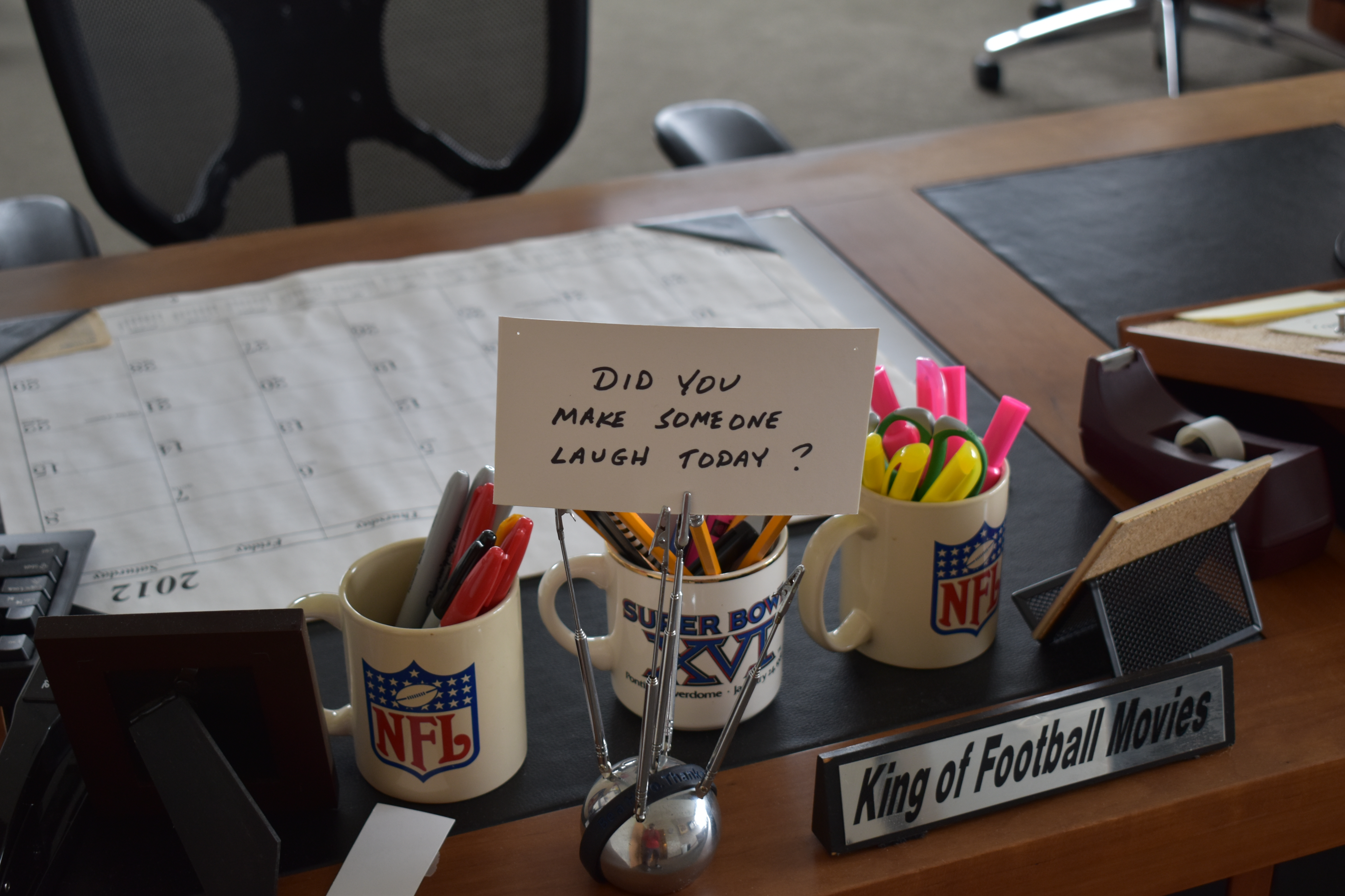 Steve Sabol's desk at NFL Films